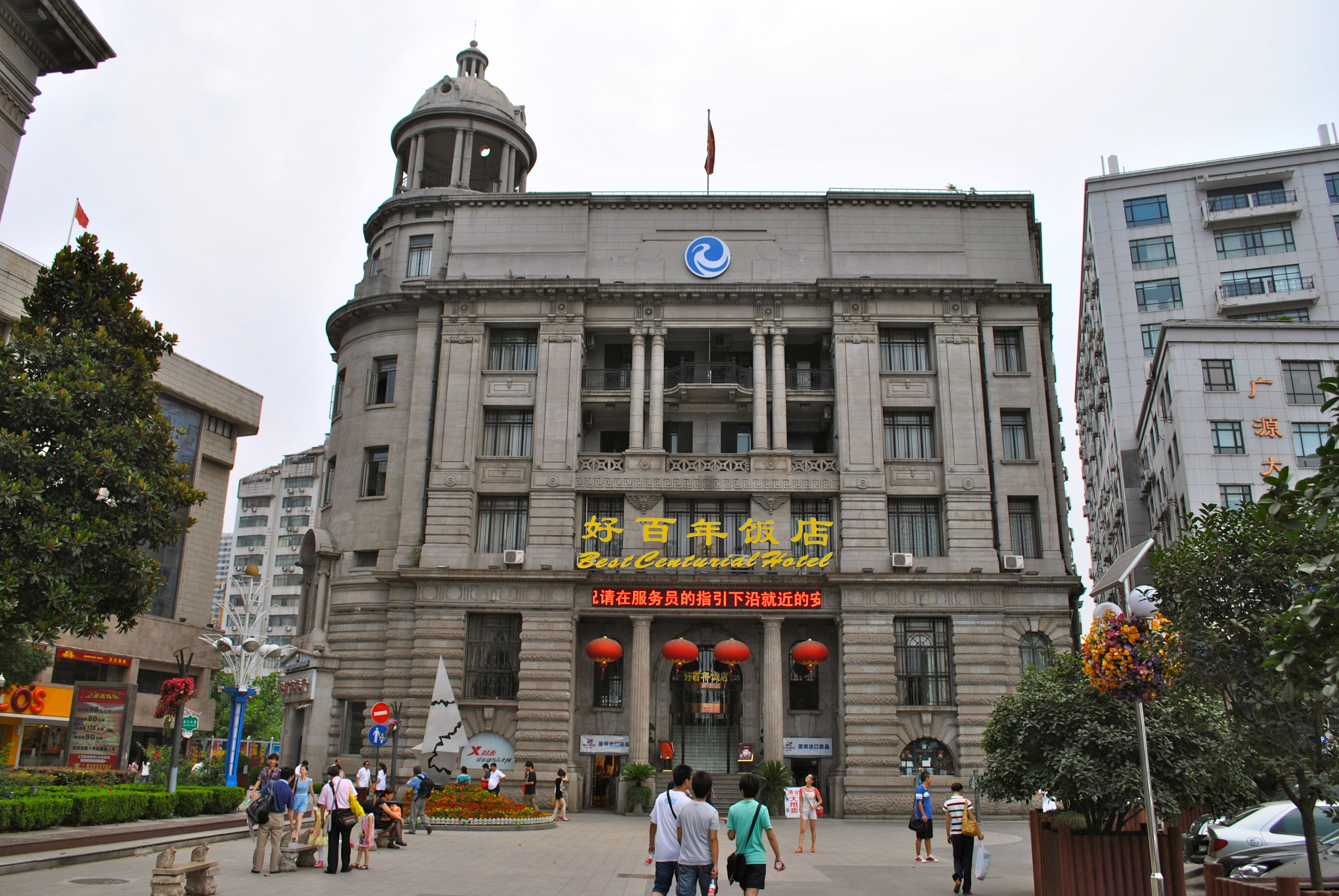 Nissin Building